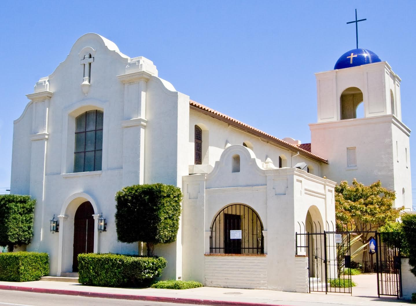 The main church.